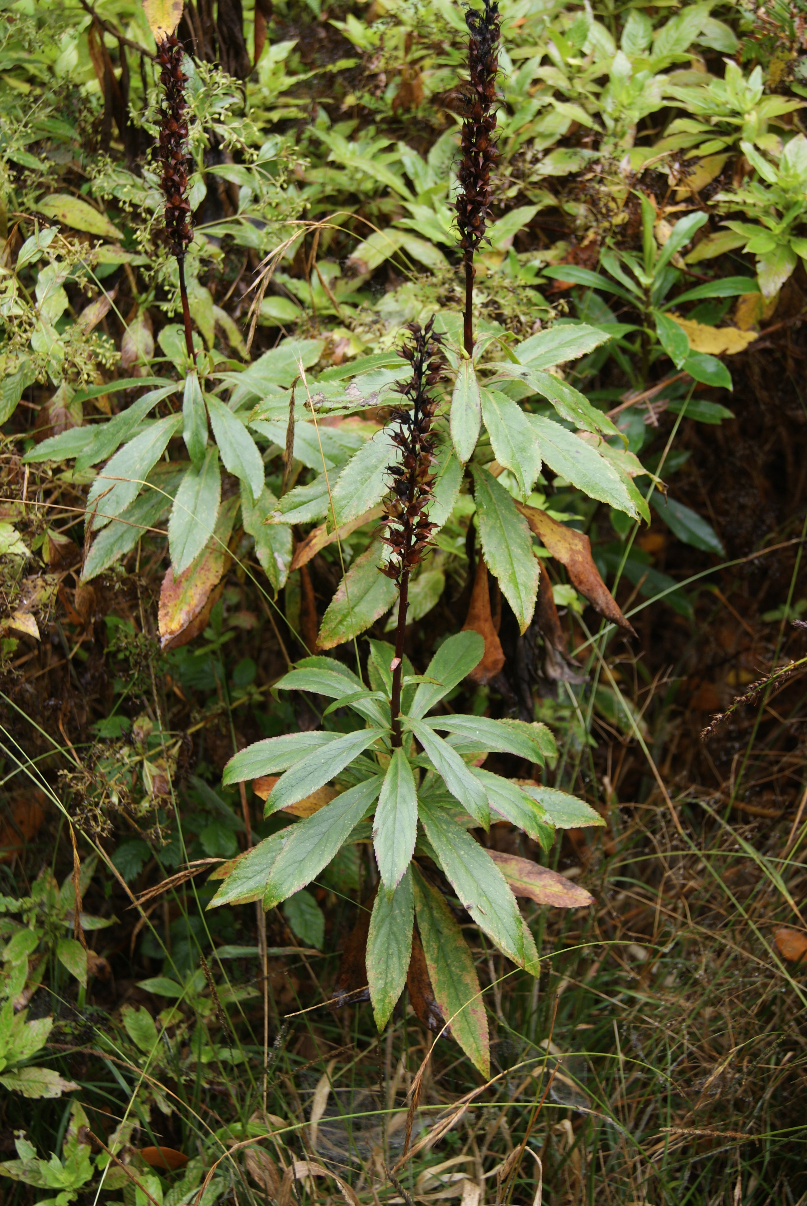 Isoplexis (Digitalis) canariensis, in situ, Anaga, Tenerife.